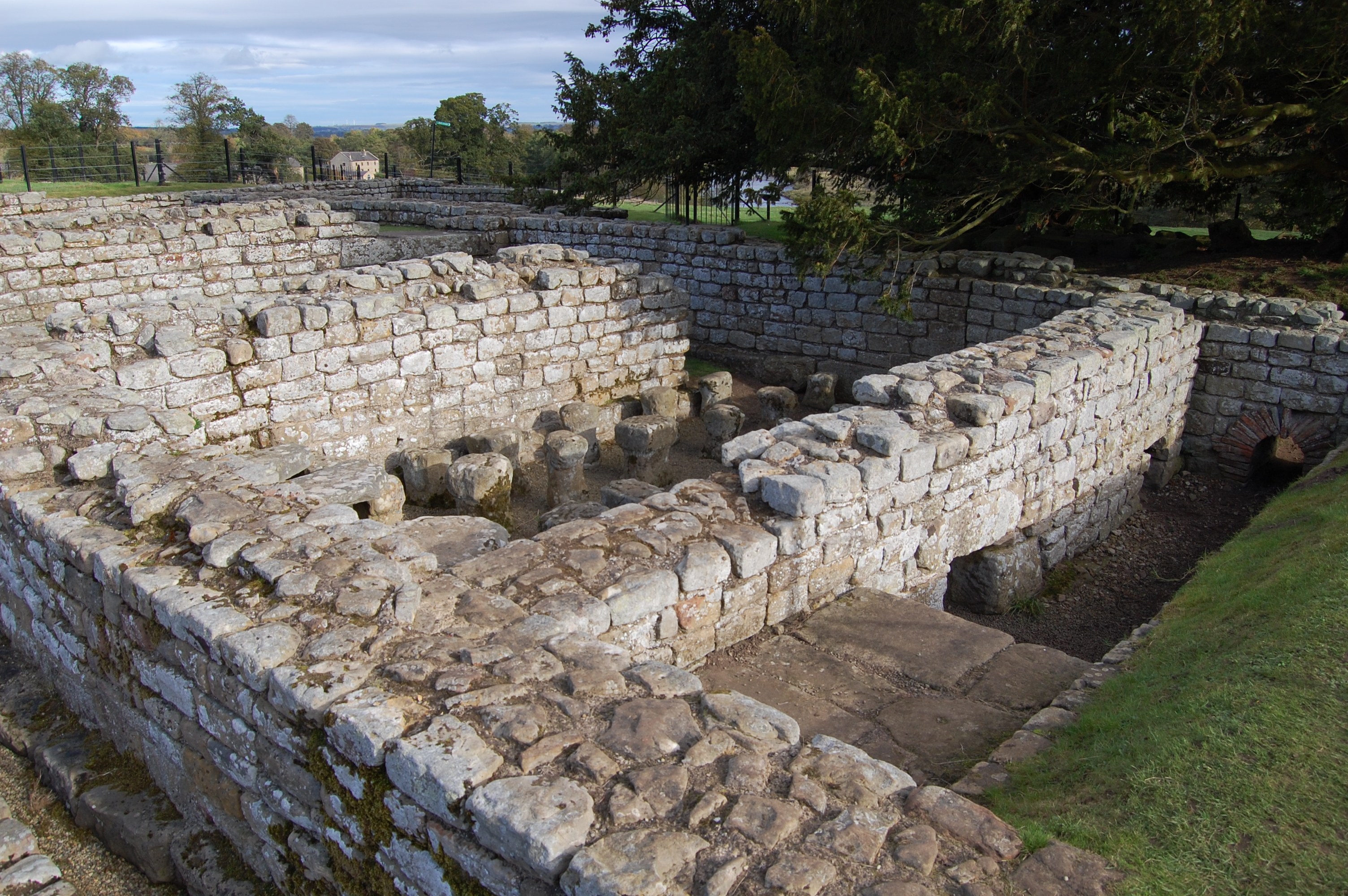 Ruins of Commander's House (Praetorium) with details of the central floor heating system (hypocaust) at Chesters Roman Fort, along Hadrian's Wall.